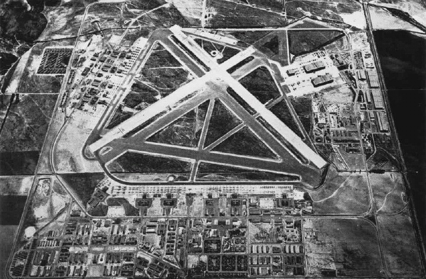 The Marine Corps Air Station El Toro, California, USA, about 1947/48.